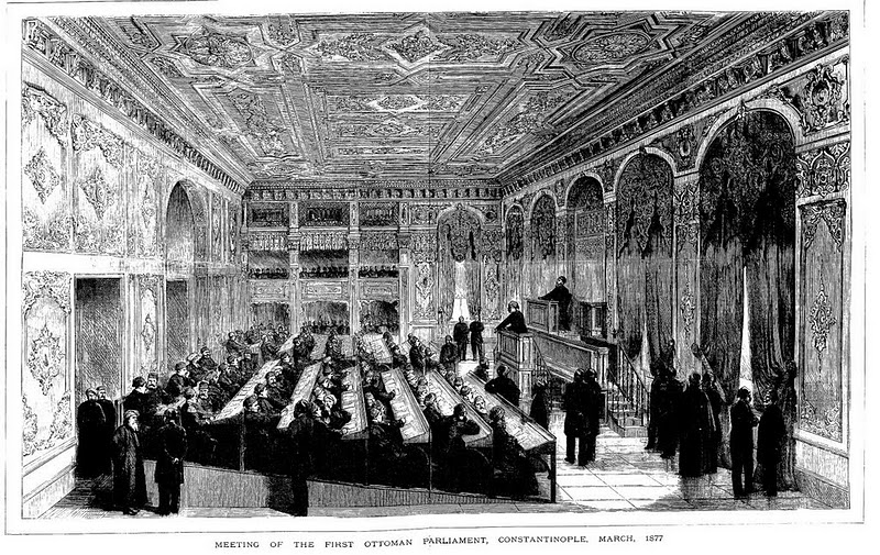 1st meeting of the Ottoman Parliament, 1877